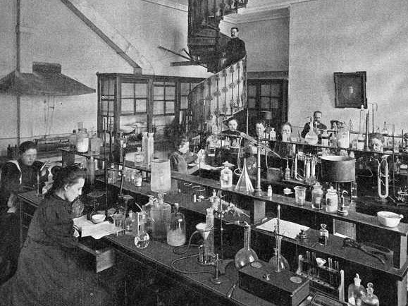 Chemical laboratory of Bestuzhev's courses